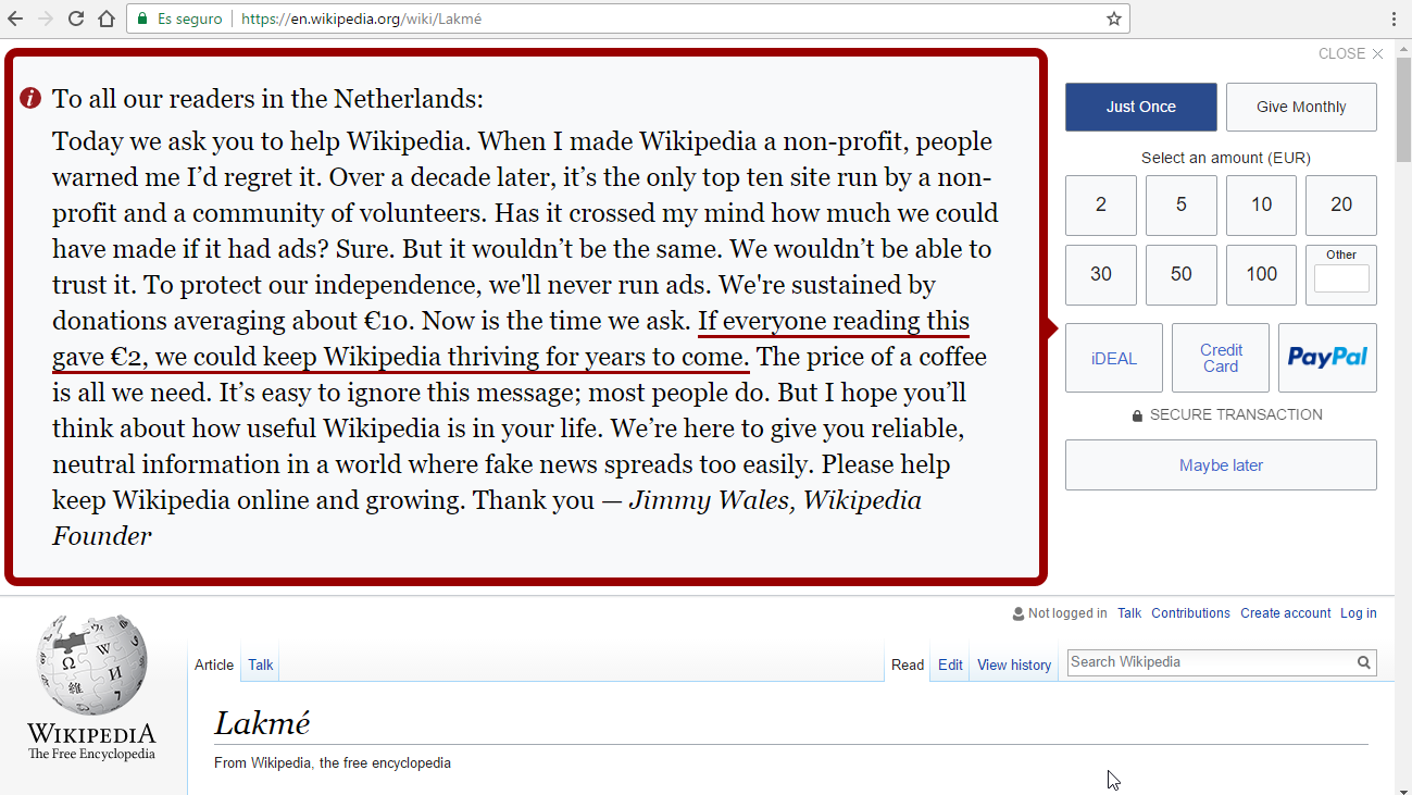 Screenshot as example of Interruption marketing and geotargeted advertisement